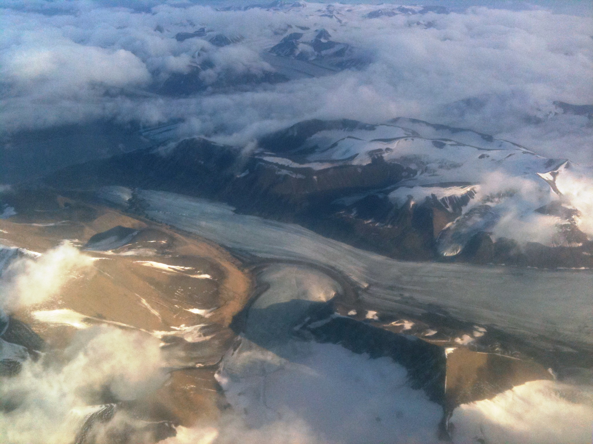 Glacial area south of the Rindersbukta, south-central Spitsbergen, with Scheelebreen and its tributary Luntebreen